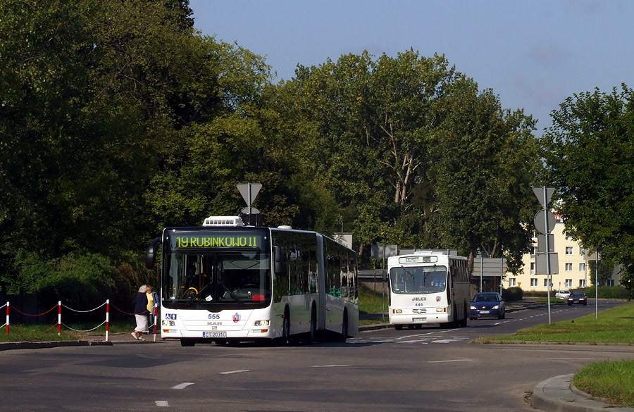 MAN Lion's City G (NG313) city bus (#555) in Toruń, Poland. Built 2008. Next bus - Jelcz. MZK Toruń operator.